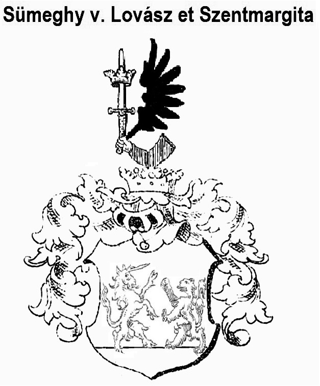 The coat of arms of the Hungarian noble Sümeghy de Lovász et Szentmargitha family